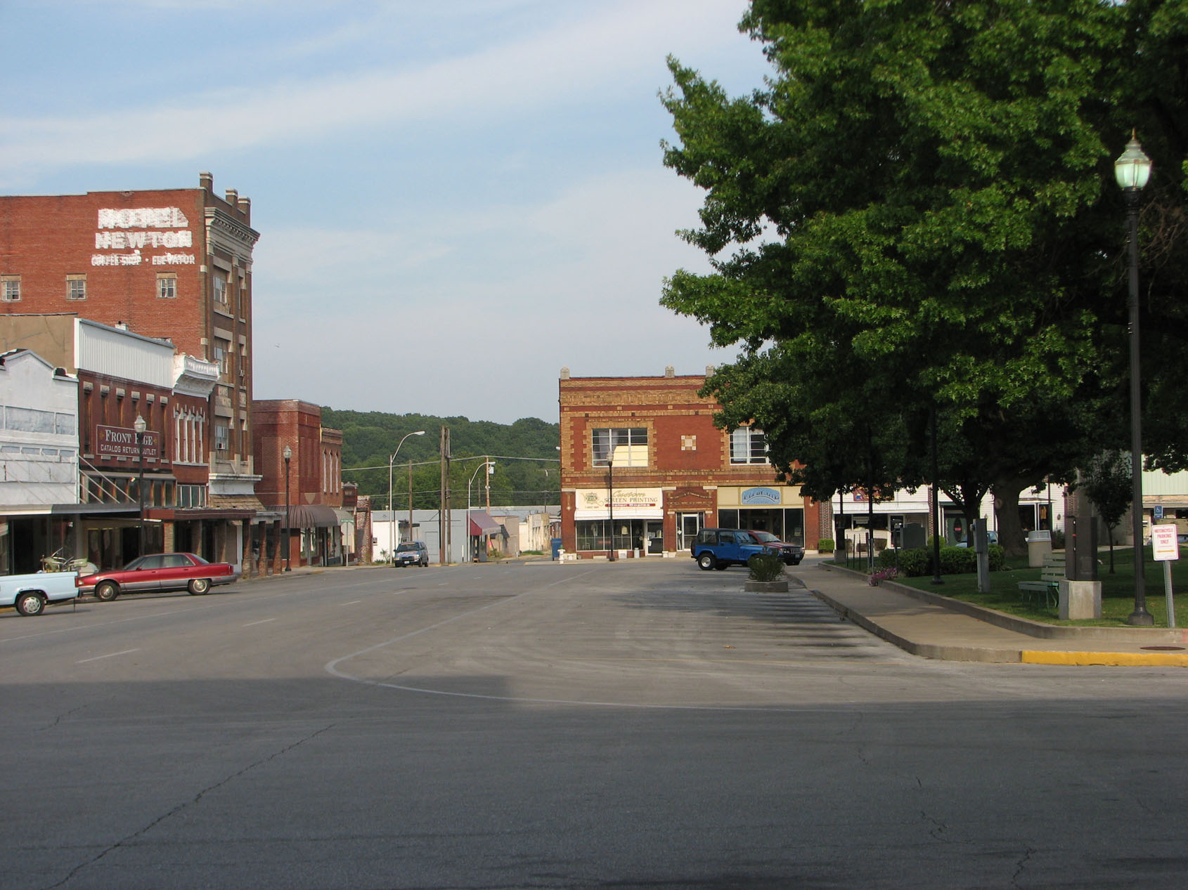 Photograph of town square of Neosho, Missouri, taken in August, 2006, by RebelAt.